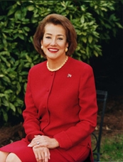 Sen Elizabeth Dole, photo from fed site